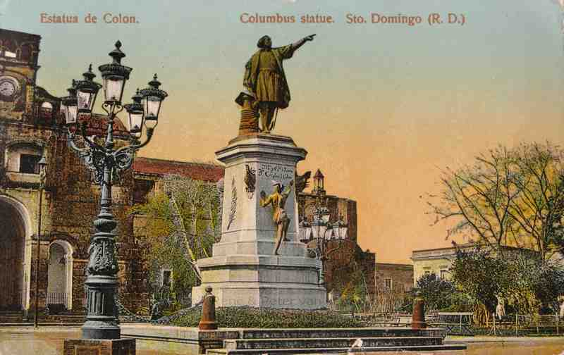 PostalJ.R.Vda Garcia